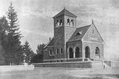 H. H. Baxter Memorial Library, Rutland, Vermont. Now the Rutland Jewish Center, and on the National Register of Historic Places since 1978.